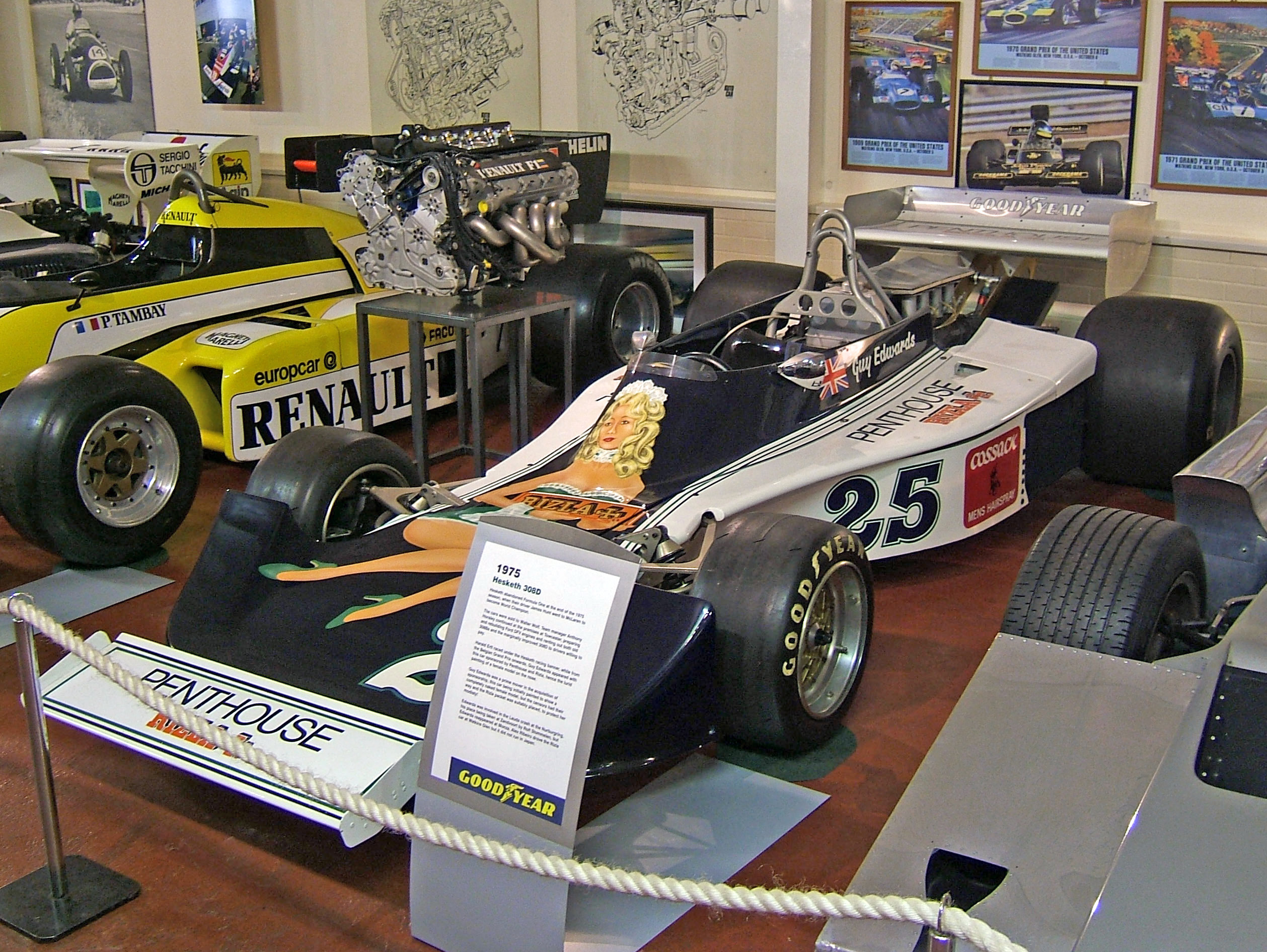 A Hesketh 308D Formula One car (1976). In the Donington Grand Prix Collection museum, Leics., UK.